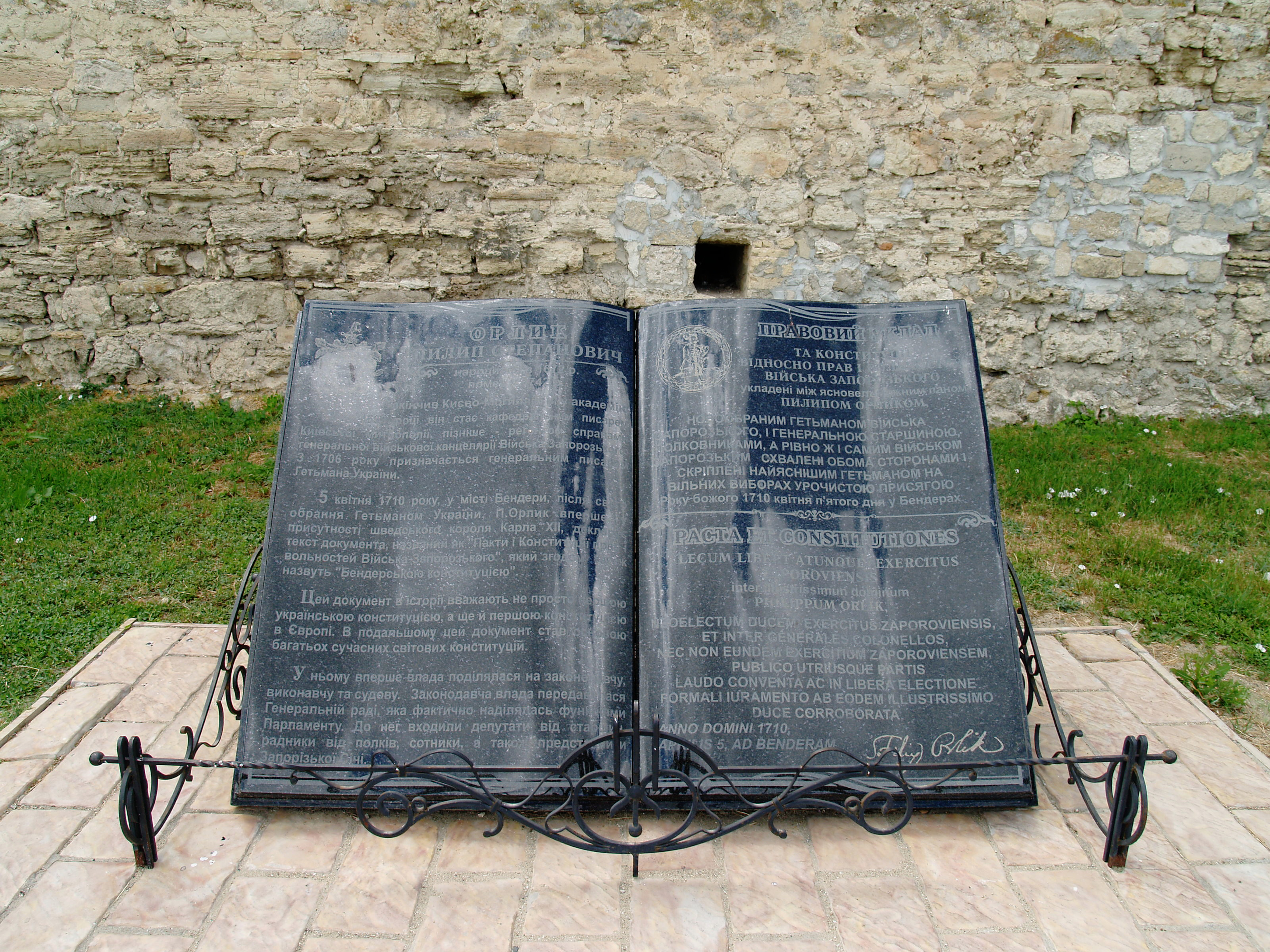 South-east corner of the Bender Fortress.